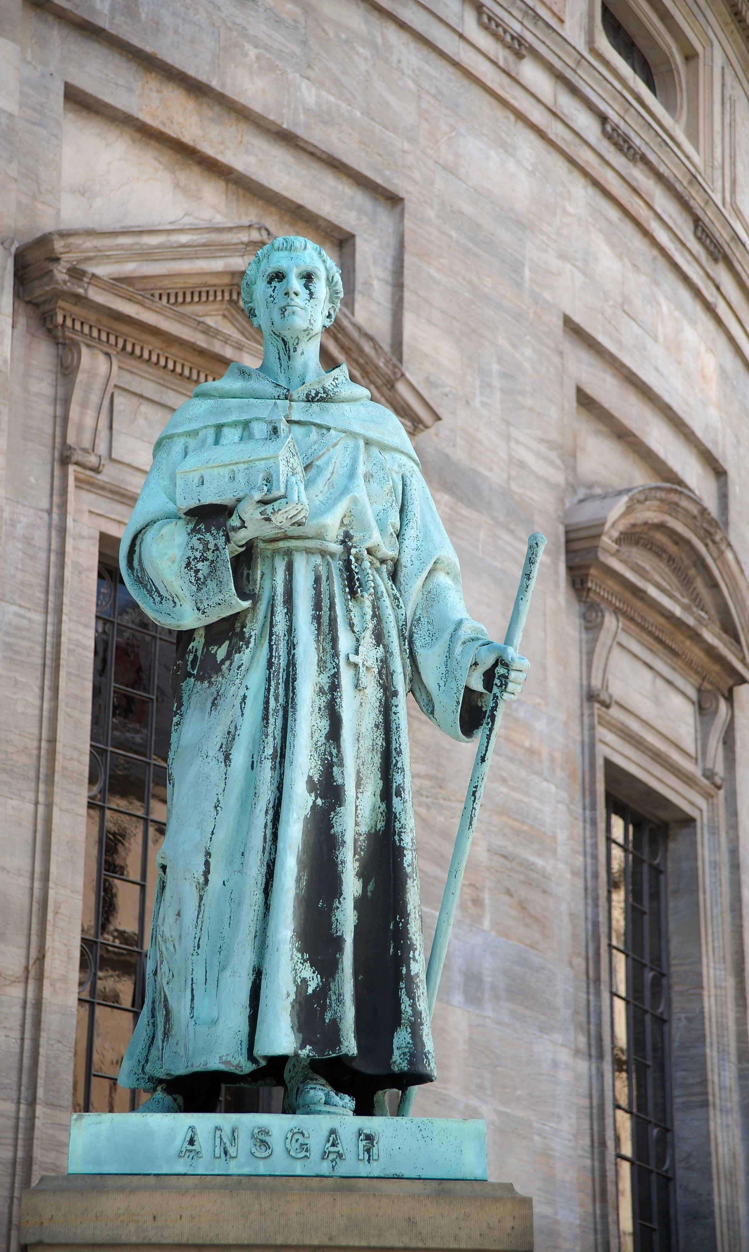 Statue of Saint Ansgar on the exterior of Marmorkirken in Copenhagen. Made by Theobald Stein in 1894.